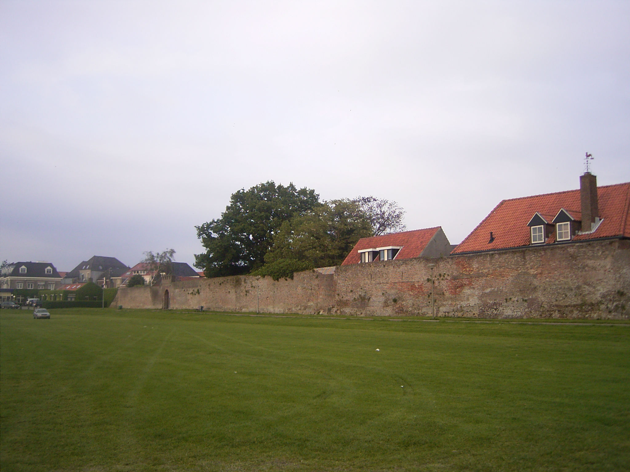 This photo shows the old city wall in Harderwijk